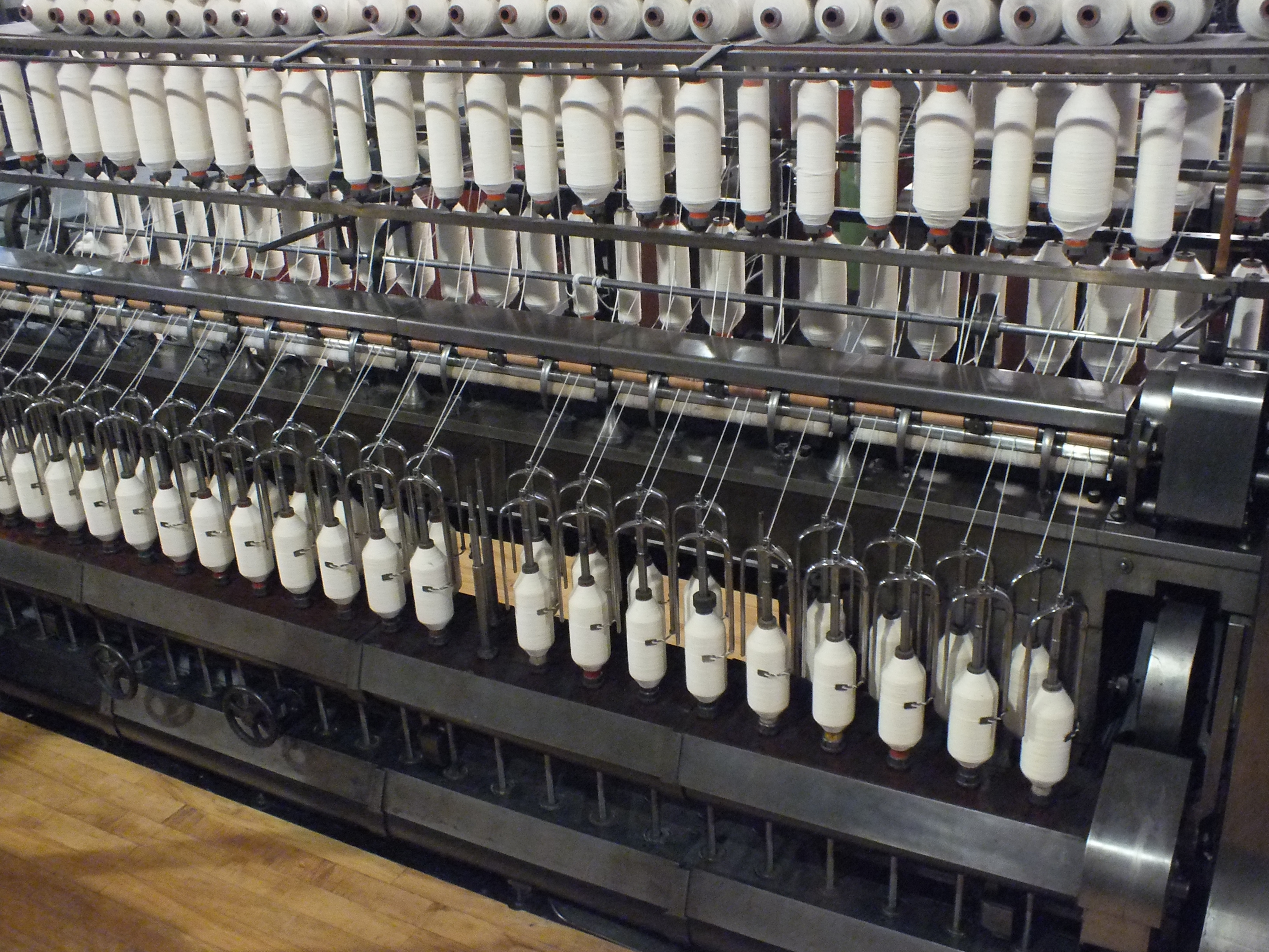 The Museum of Science and Industry (Manchester) contains a collection of textile machines that demonstrate the whole process used in a Cotton mill, and a few key eighteenth century machines.